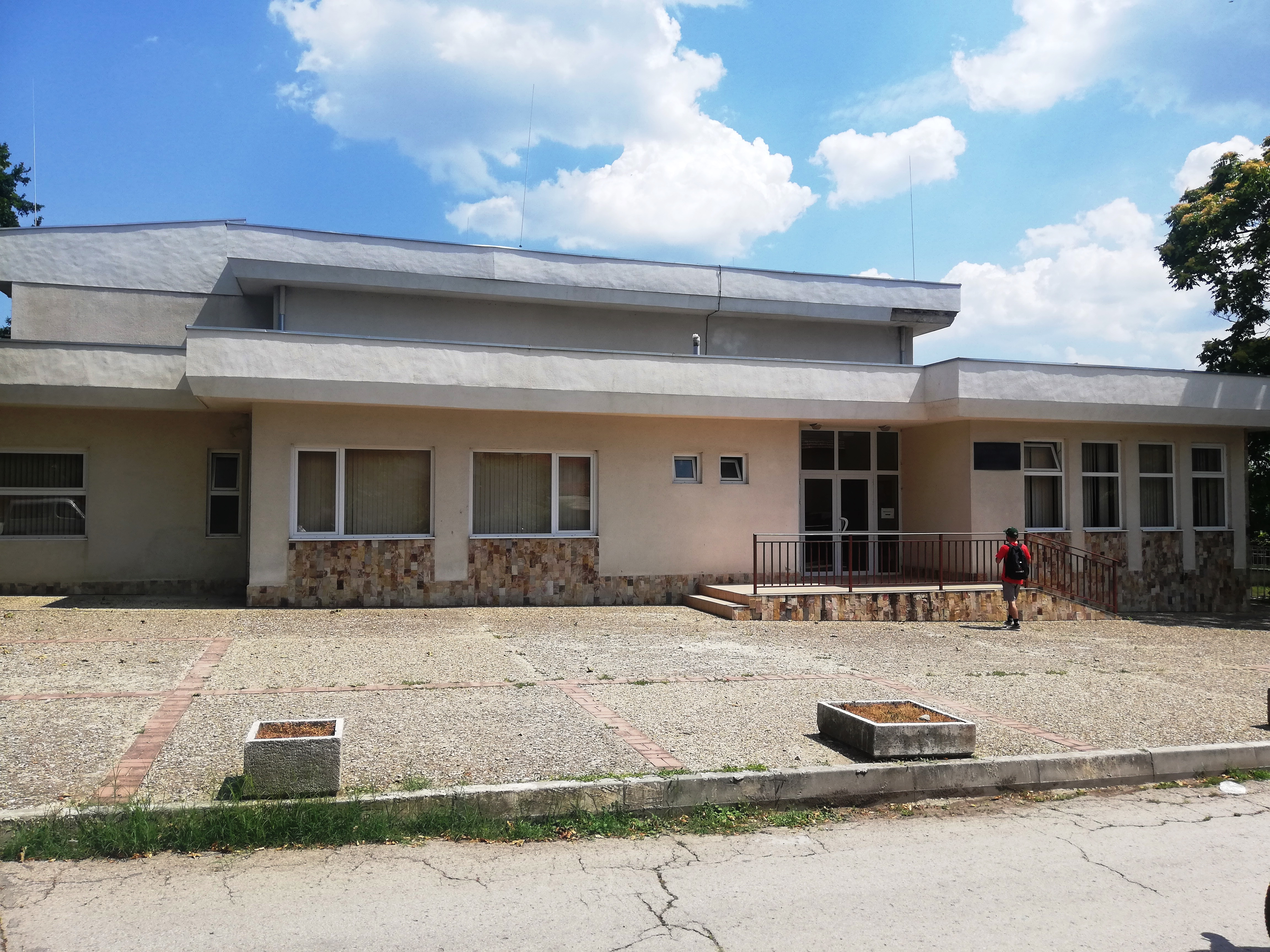 A lycaeum in Ezerovo, Varna Province